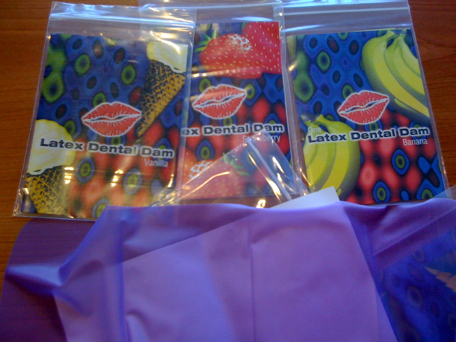 Dental dams. The purple sheet is a dental dam taken out of the package. Its flavor is grape :)